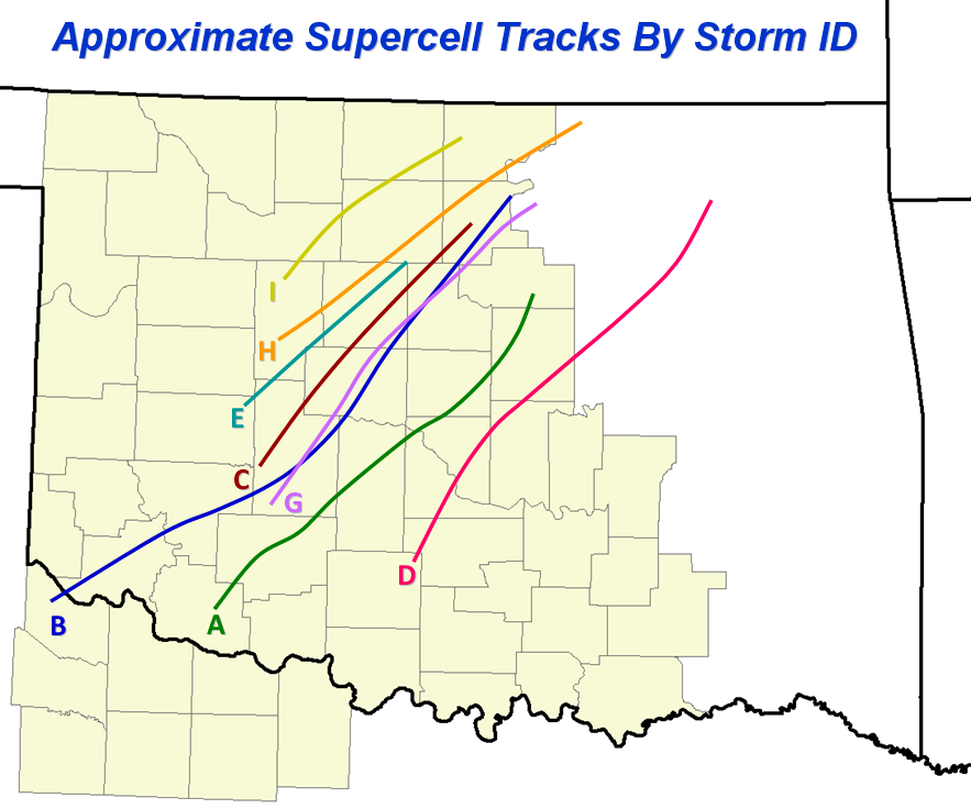 Approximate tracks of the supercells that spawned the tornadoes across Oklahoma on May 3-4, 1999